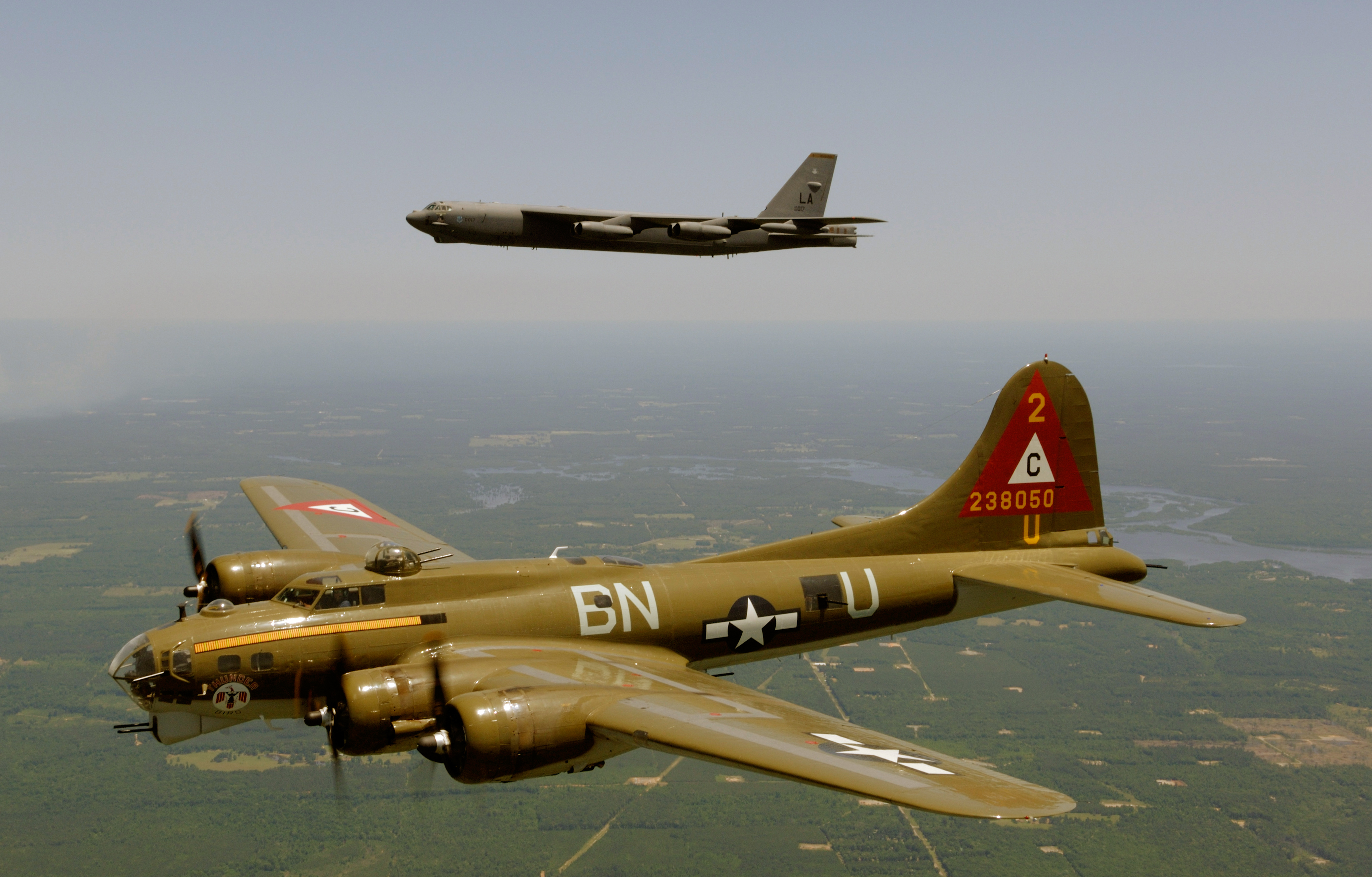 A B-17G Flying Fortress (nose art Thunderbird), below, and a B-52H Stratofortress flying in a heritage flight formation during 2006 Defenders of Liberty Airshow at Barksdale Air Force Base, LA, USA, on May 12, 2006.